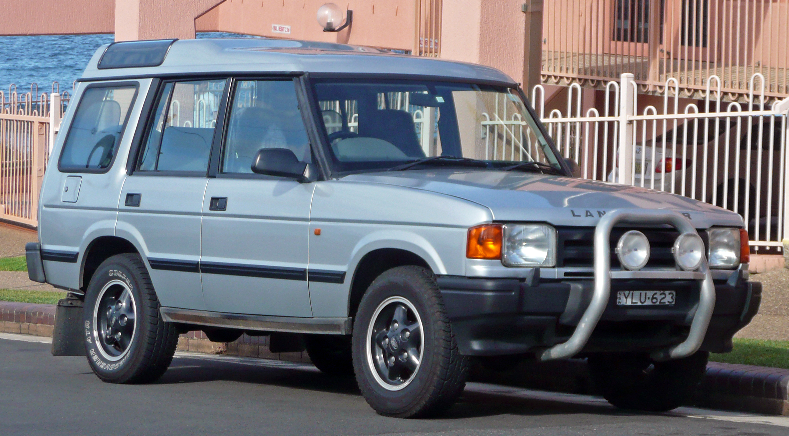 1997 Land Rover Discovery V8i. Photographed in Cronulla, New South Wales, Australia.